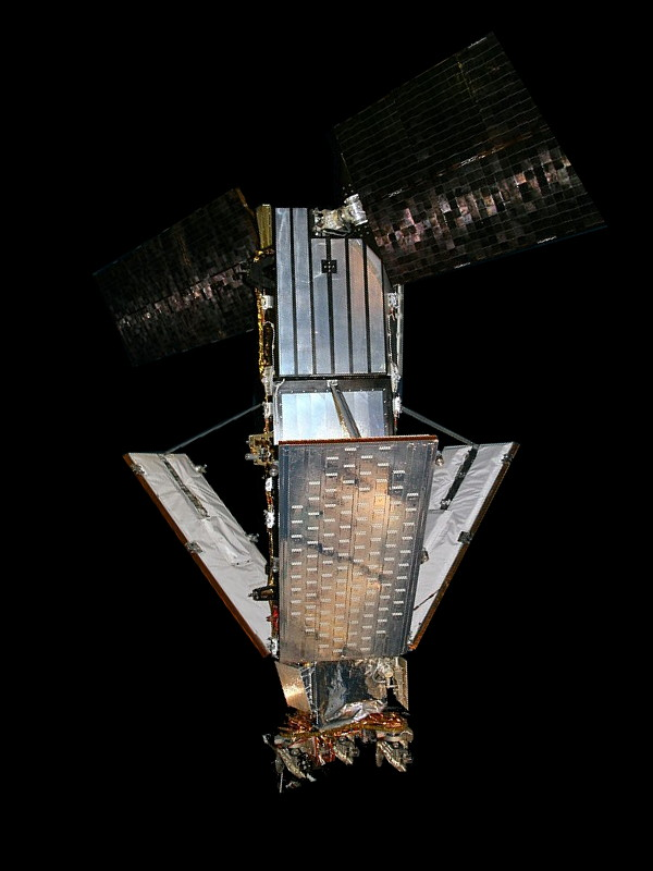 Cropped from and black background added